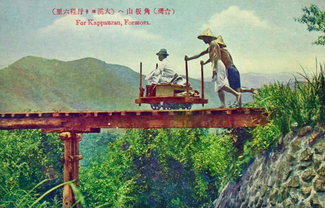 Taiwanese pushcar railways